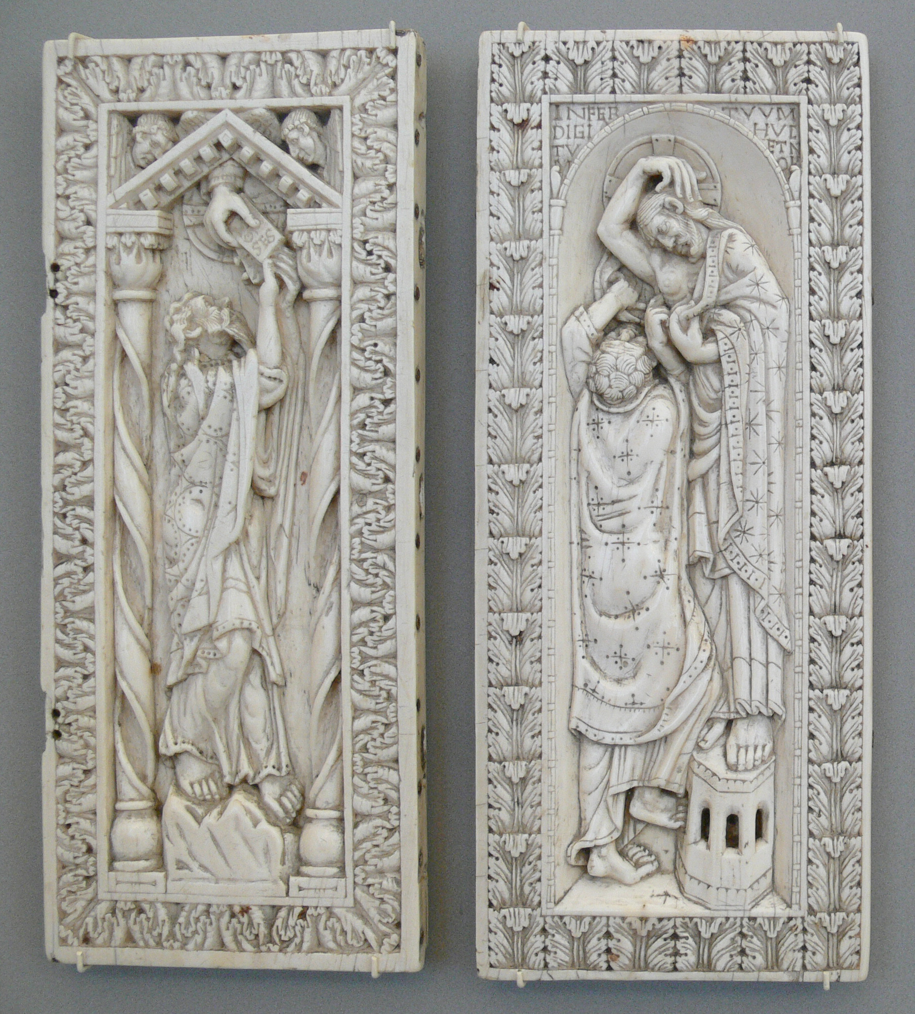 Diptych: Moses receiving the Ten Commandments and The Doubting Thomas; Trier, end of 10th century, ivory. Skulpturensammlung (inv. nos. 8505/8506, acquired in 1935), Bode-Museum Berlin.